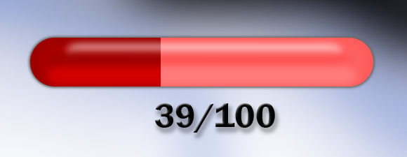 Picture of Hitpoints